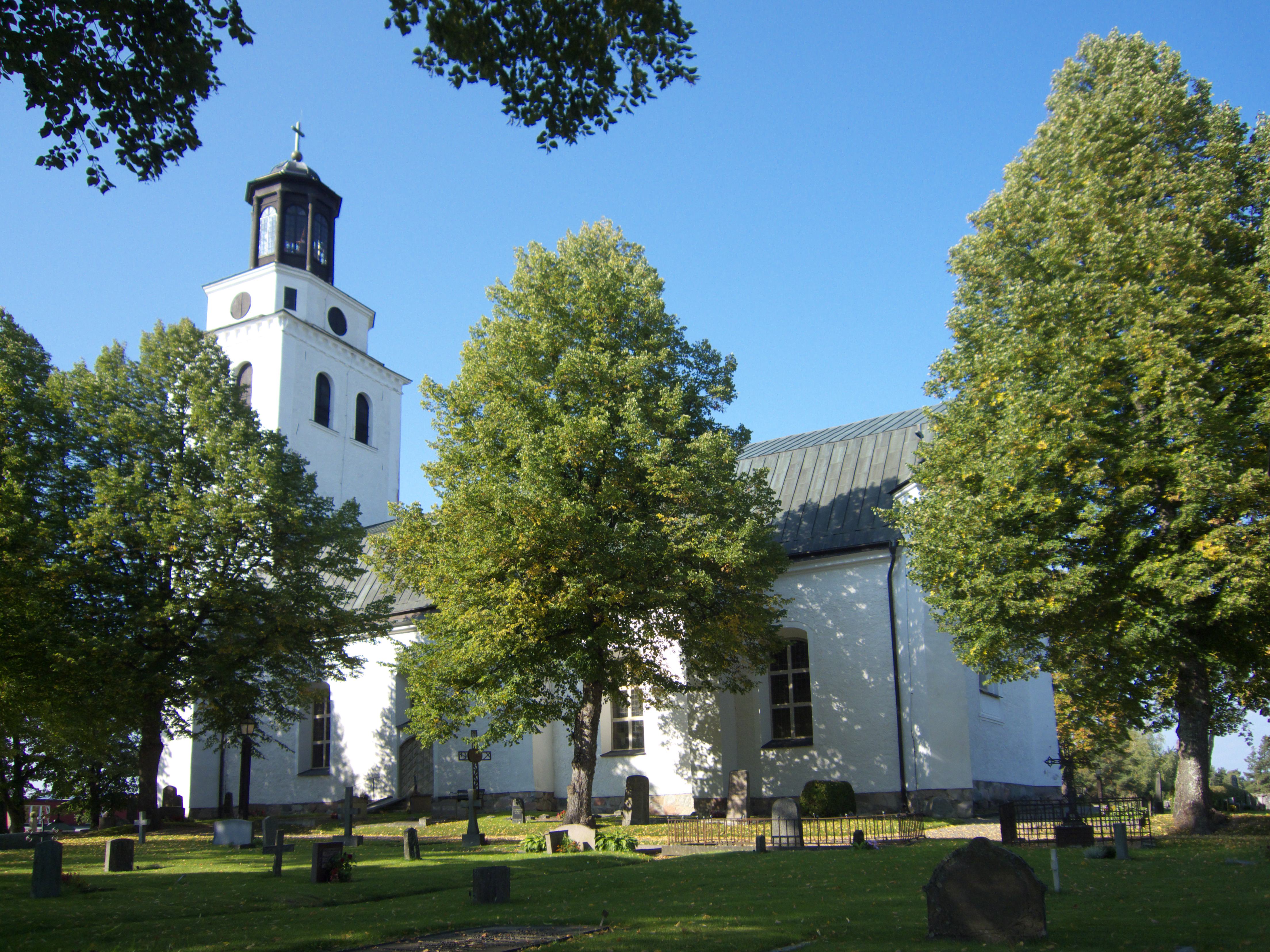 Dingtuna church